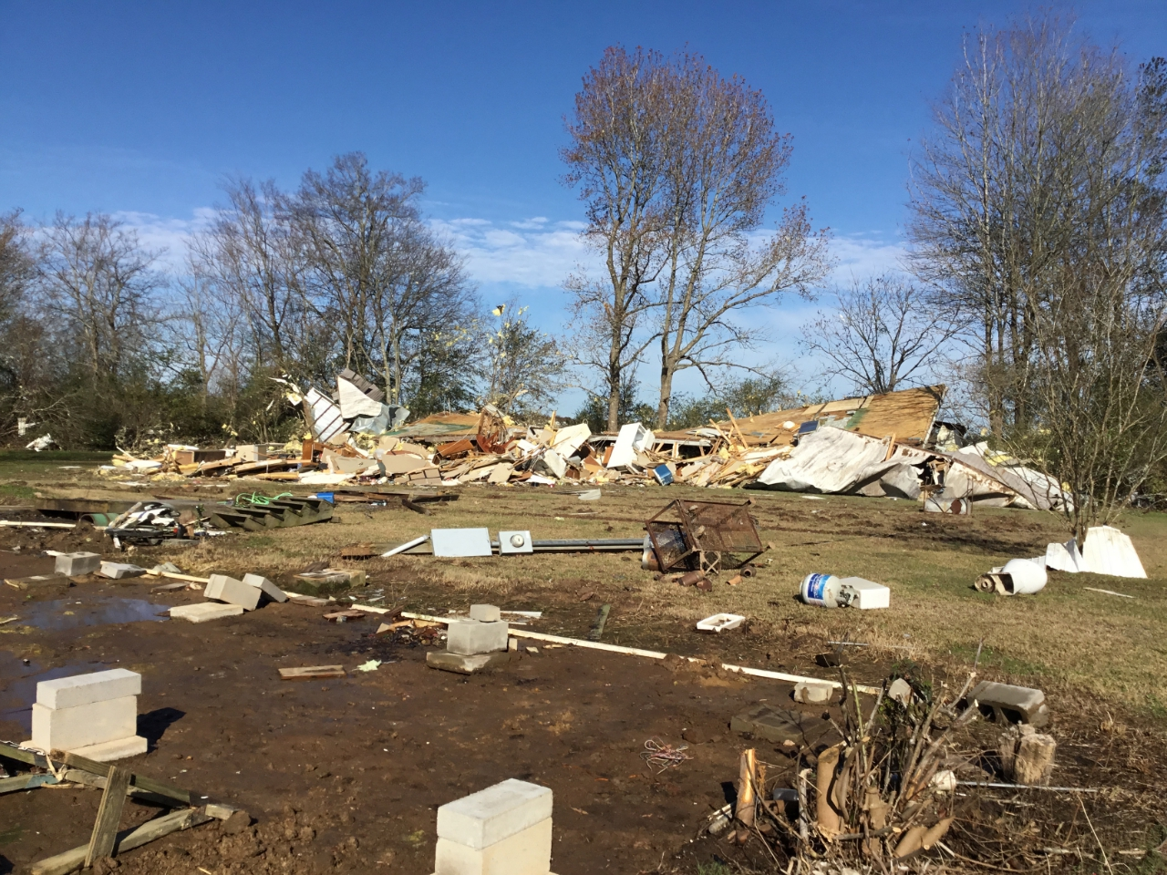 This mobile home in Baskin, Louisiana was destroyed by an EF2 tornado on November 26, 2019.